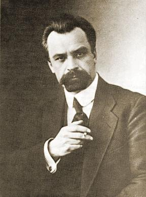 Wolodymyr Wynnyczenko, President of Ukrainian Republic (1919)